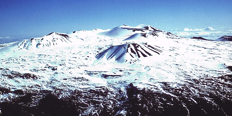 Some of the large cinder and scoria cones atop Mauna Kea are more than 1.5 km in diameter and a few hundred meters tall. The cones are surrounded by lava flows that erupted from their flanks. When the youngest glacier covered the summit area 40,000 to 13,000 years ago, several eruptions took place beneath the ice. Most of the cones visible today on Mauna Kea were erupted between about 65,000 and 14,000 years ago. — USGS